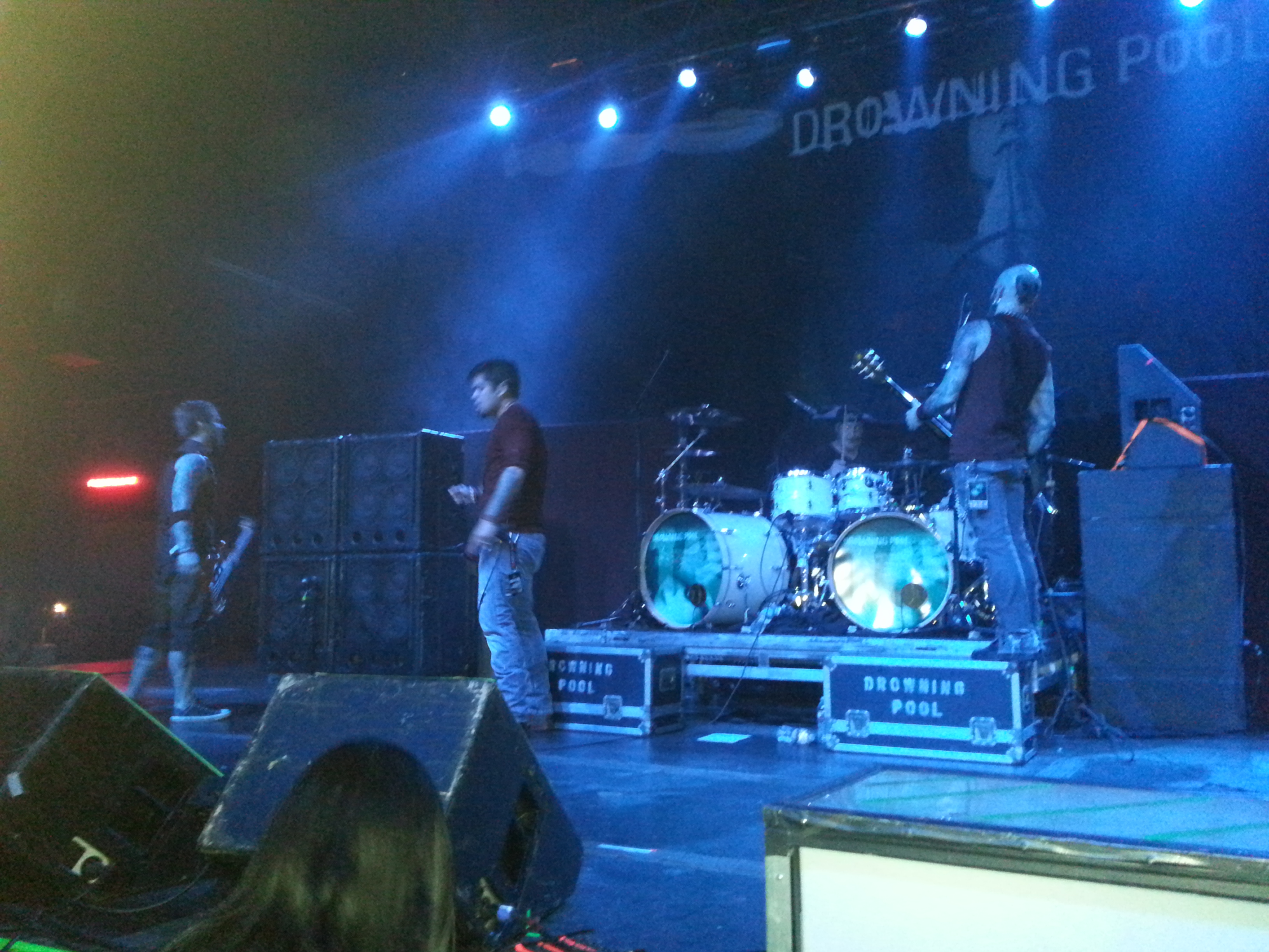 Drowning Pool performing in 2014